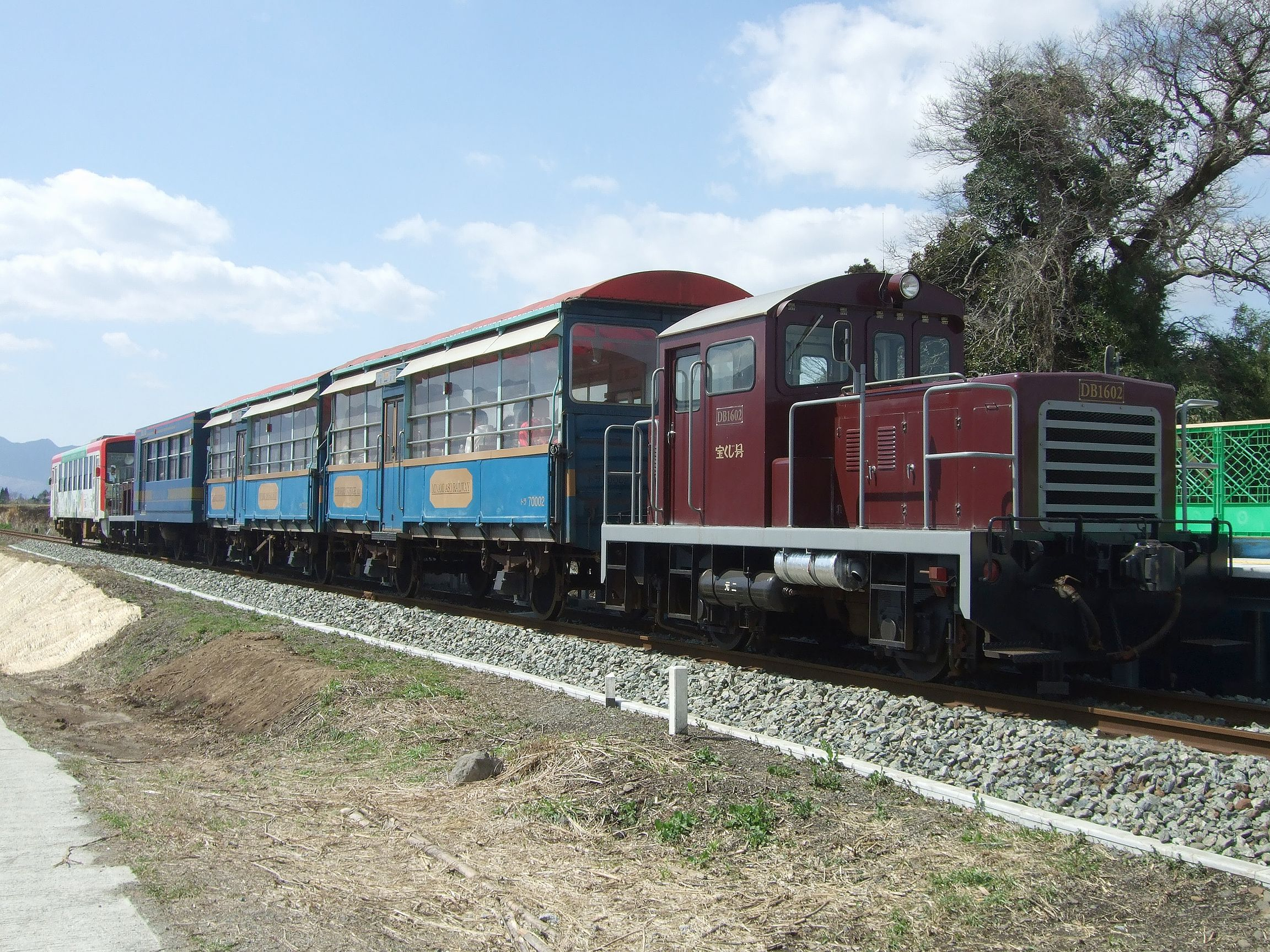 Minamiaso Railway torokko train “Yusuge-go” Formation:DB1602+トラ70002+トラ70001+トラ20001+DB1601+MT2001 Location:at Minamiaso-Shirakawasuigen, Takamori Line, Minamiaso Railway, Minamiaso, Kumamoto, Japan.